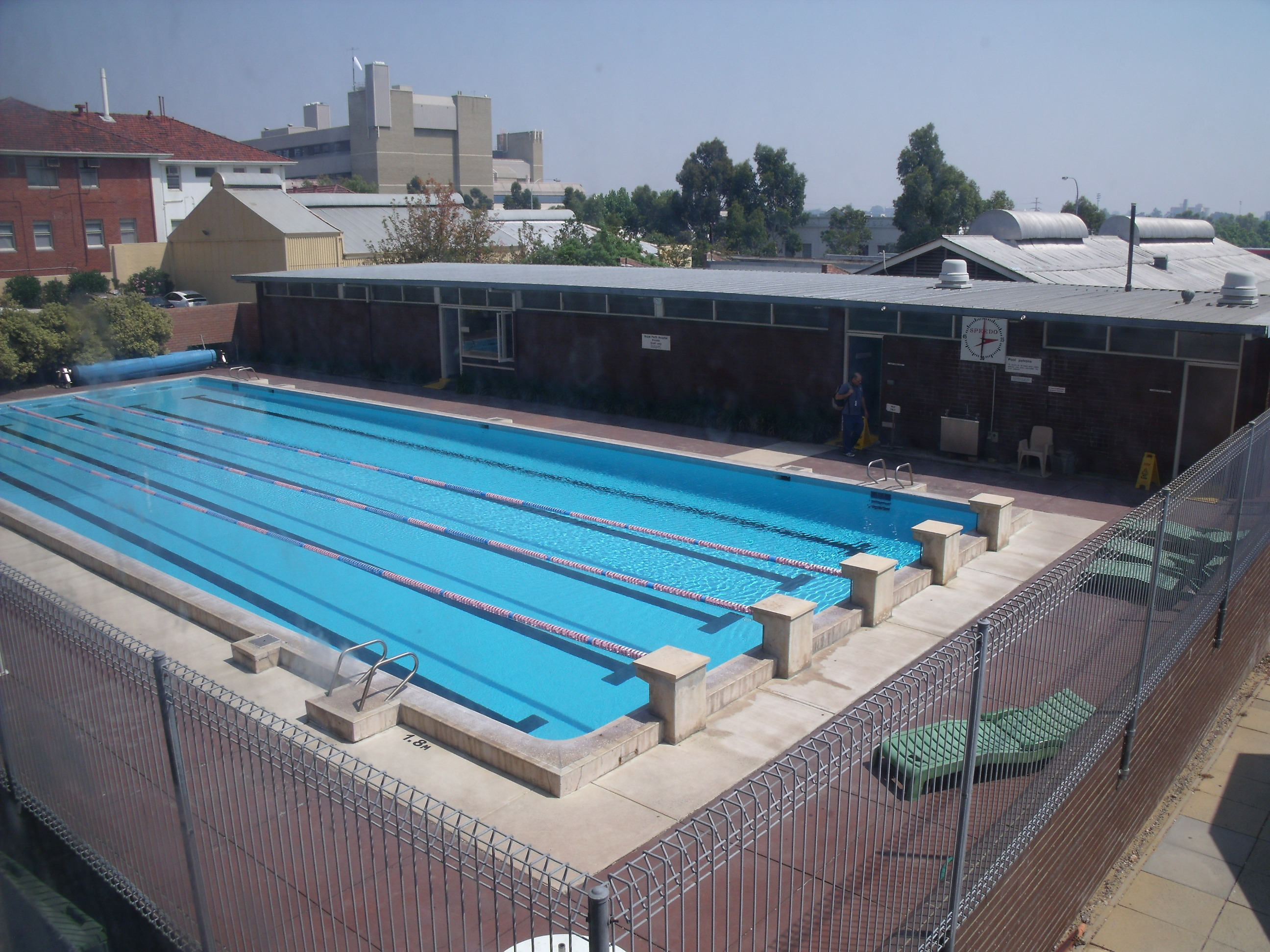 The private pool of Royal Perth Hospital.